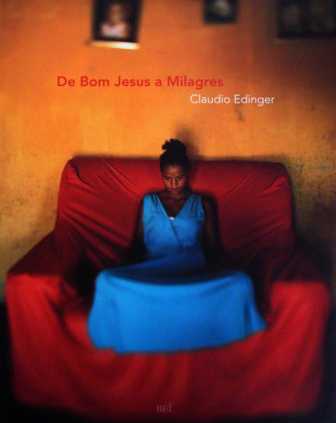 Livro De Bom Jesus a Milagres